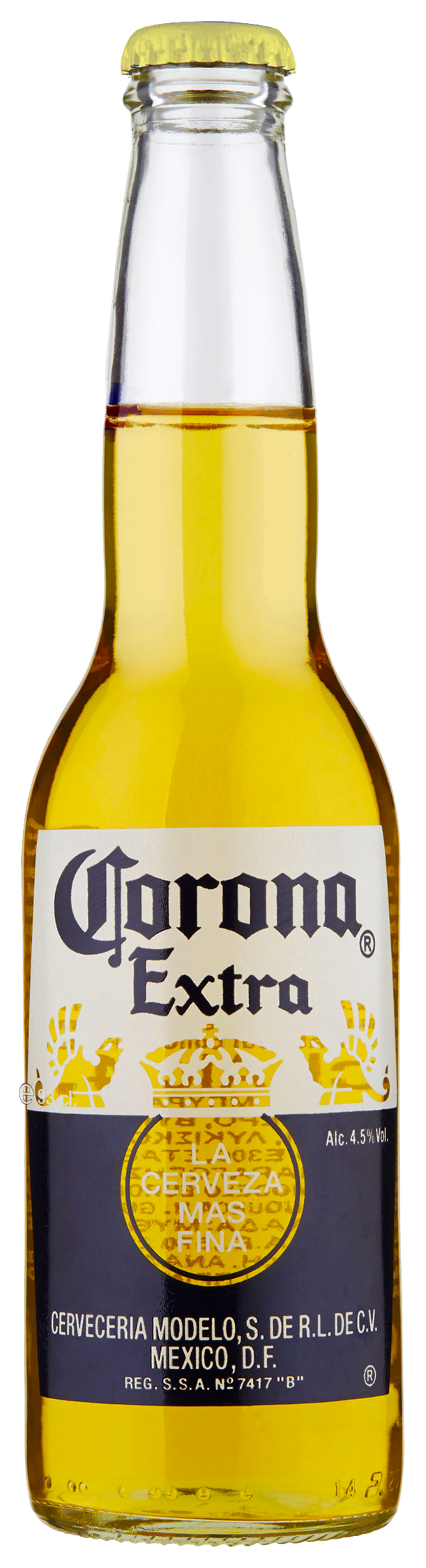 A bottle of Corona Extra beer